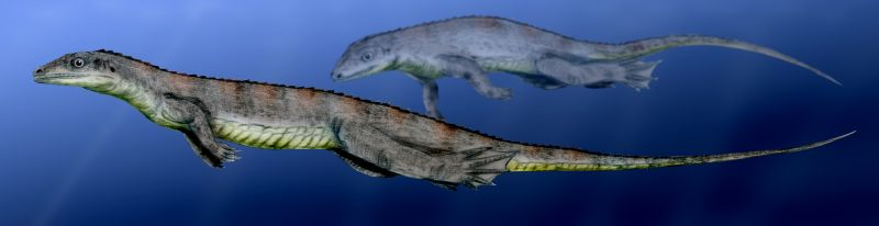 Acerosodontosaurus piveteaui is a younginiform diapsid that lived during the Upper Permian of Madagascar. It is known from a single skeleton including a crushed skull and part of the body and limbs from an immature specimen. In life, the animal measured about 60-70 cm in length and had a lizard-like appearance. The fossil has been discovered in marine deposits indicating that the animal might have been aquatic. Digital.